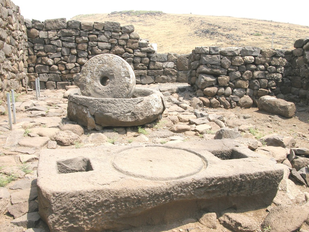 Old Oil-press in Korazim Israel.